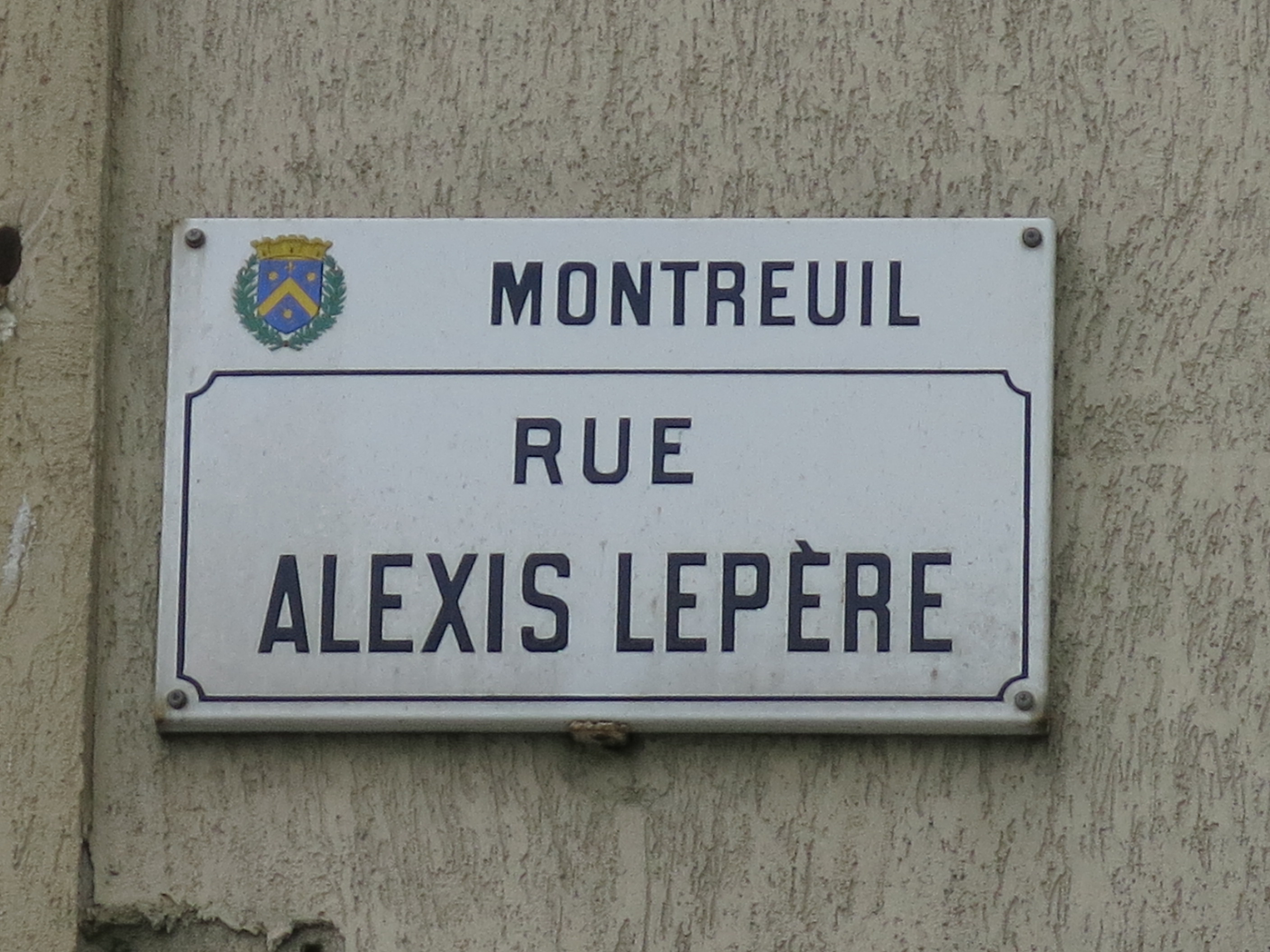 Street sign of the rue Alexis Lepère in Montreuil (Seine-Saint-Denis, France).